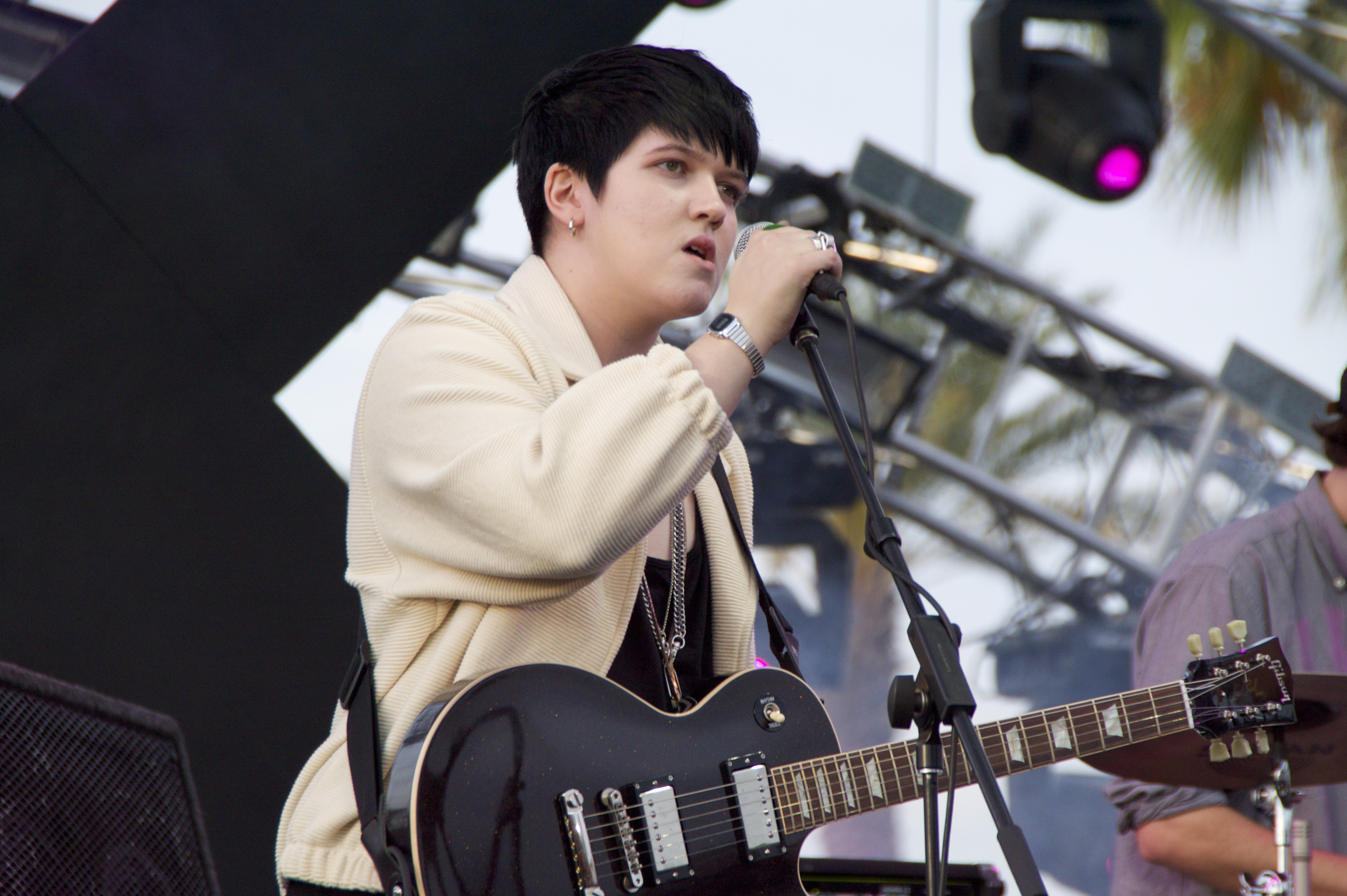 The XX perform at Coachella 2010. Top 5 of Coachella 2010.